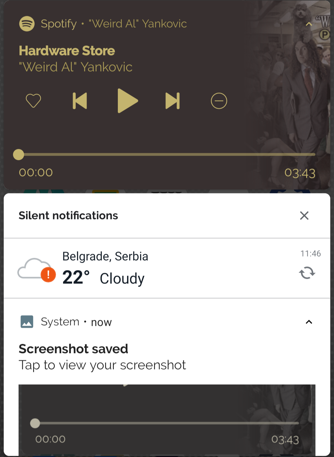 Notification tray